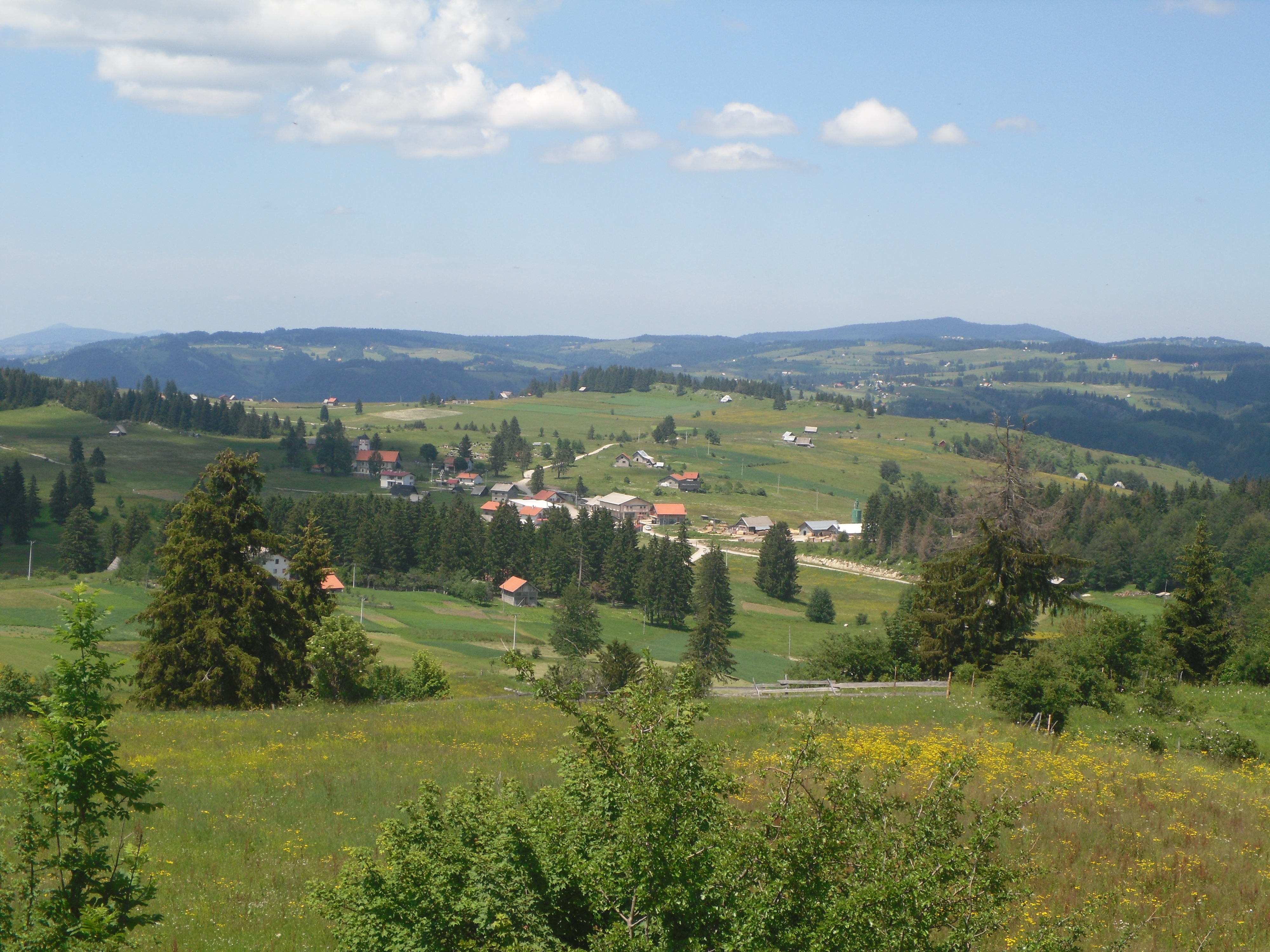 Landscape of Imljani